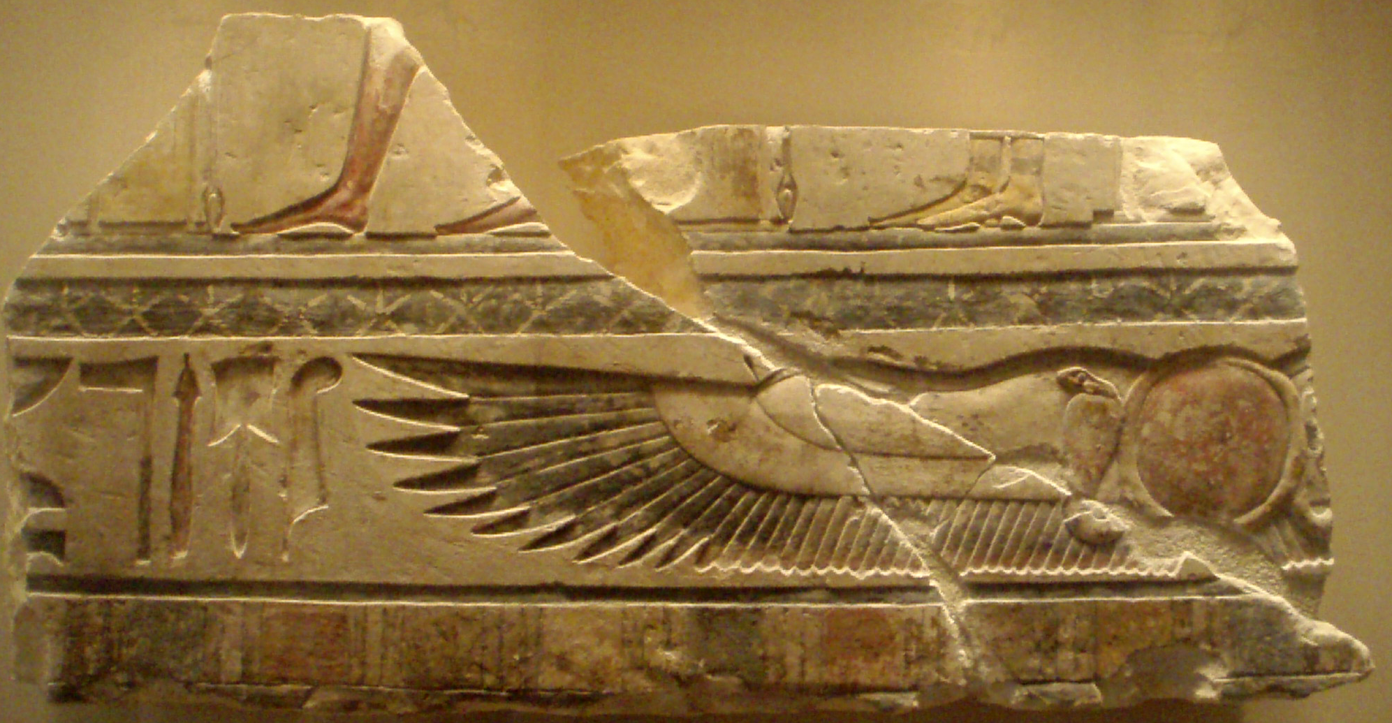 Winged Sun Disk and Diety Procession from the pyramid complex of Senwosret I in Lisht. 12th dynasty, circa 1961-1917 B.C.